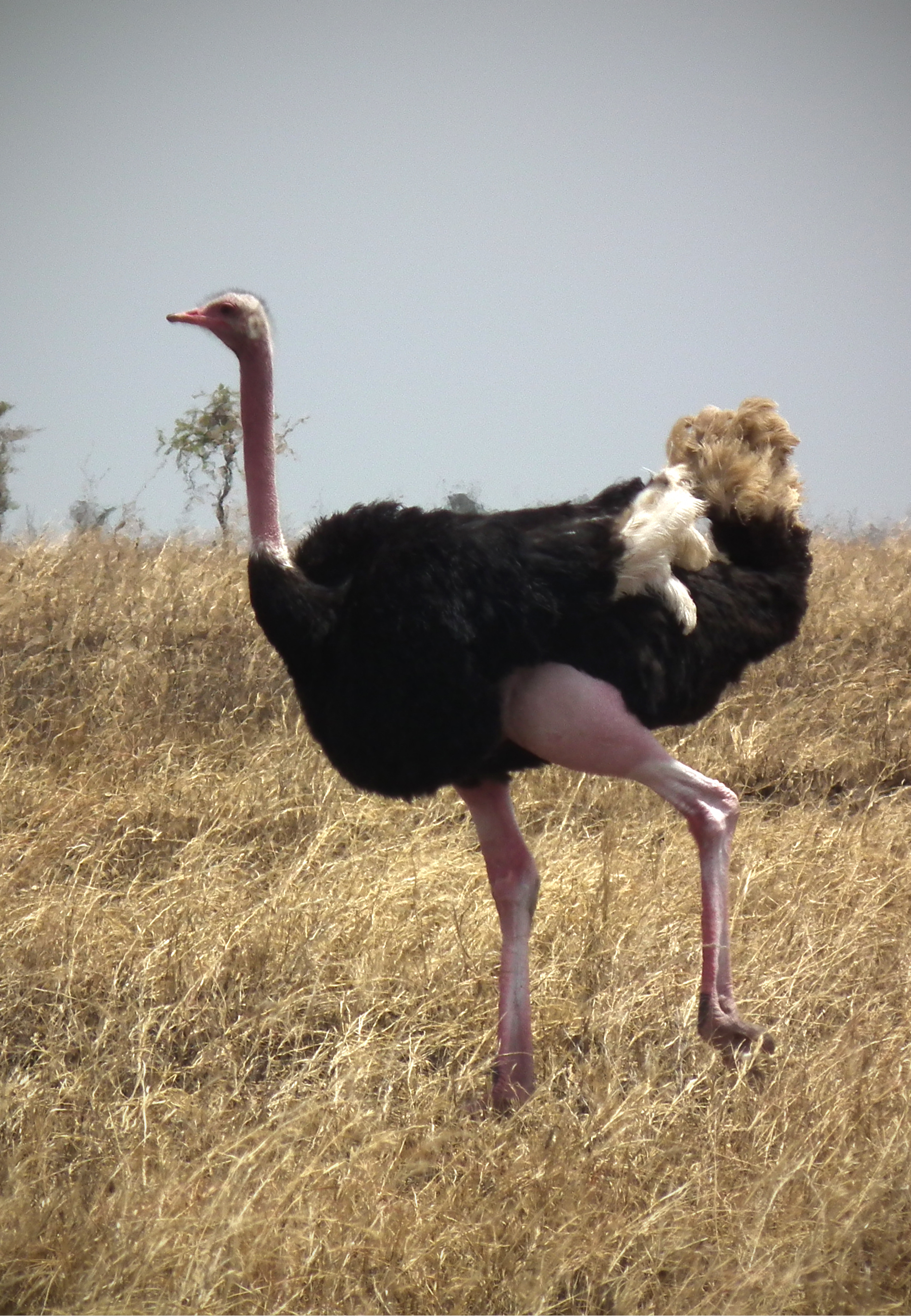 Ostrich, Struthio camelus in Tanzania